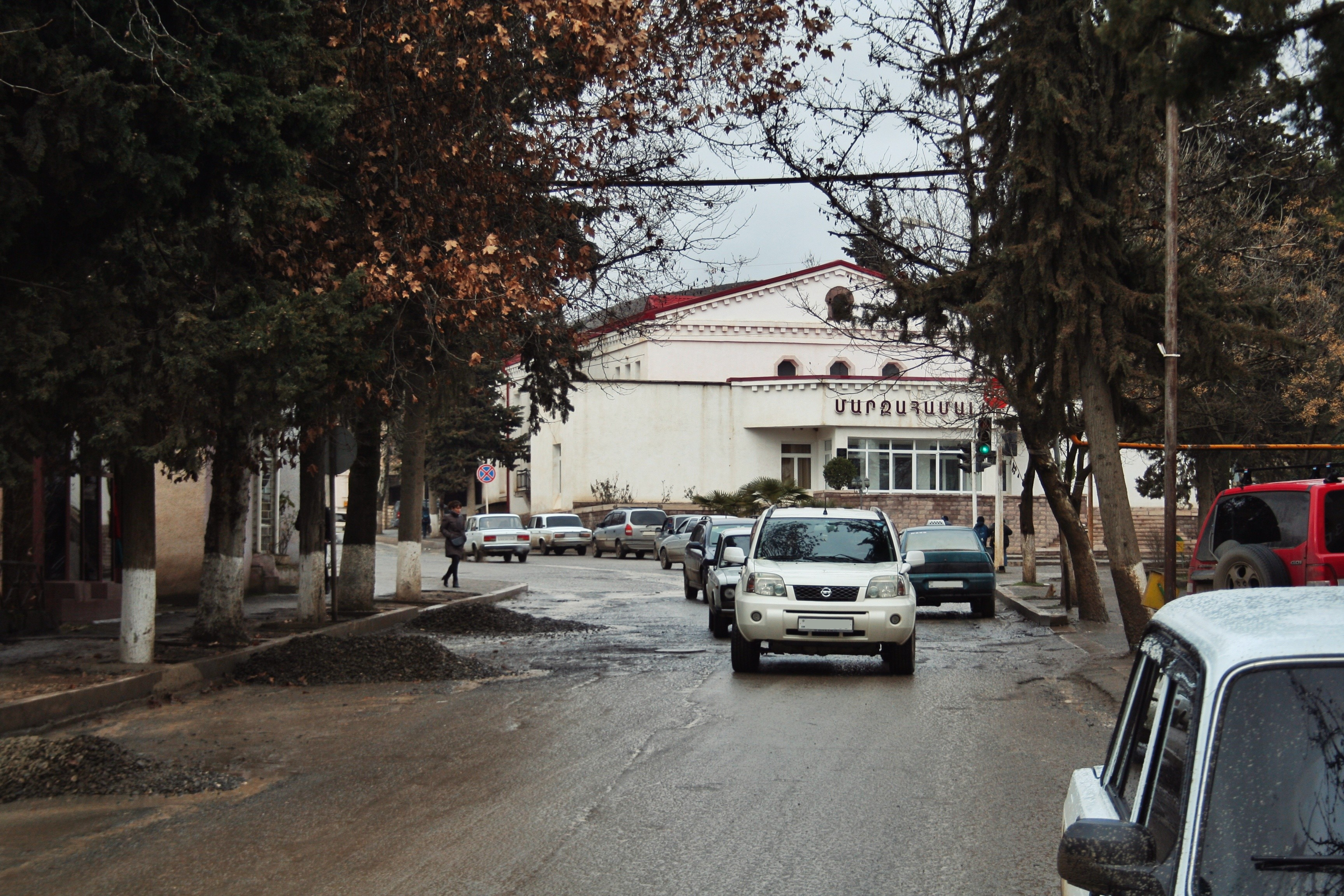 A street in Martuni city